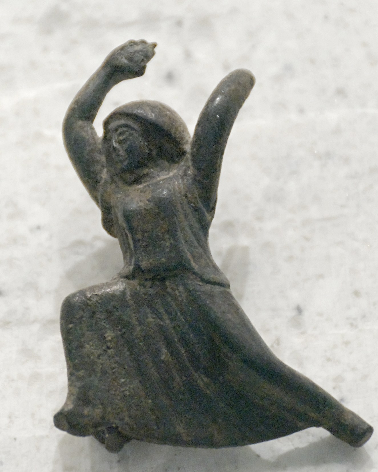 Female figure running. Bronze, Peloponnesian style, second quarter of the 5th century BC. From Sparta?